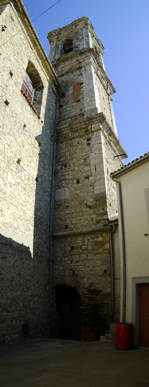 The bell tower of the church of Santa Maria del Popolo in Bomba, in the province of Chieti, Abruzzo